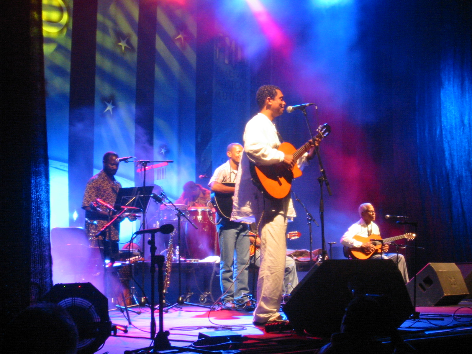 Grupo Simentera from Cabo Verde at FMM Festival in Sines 2003